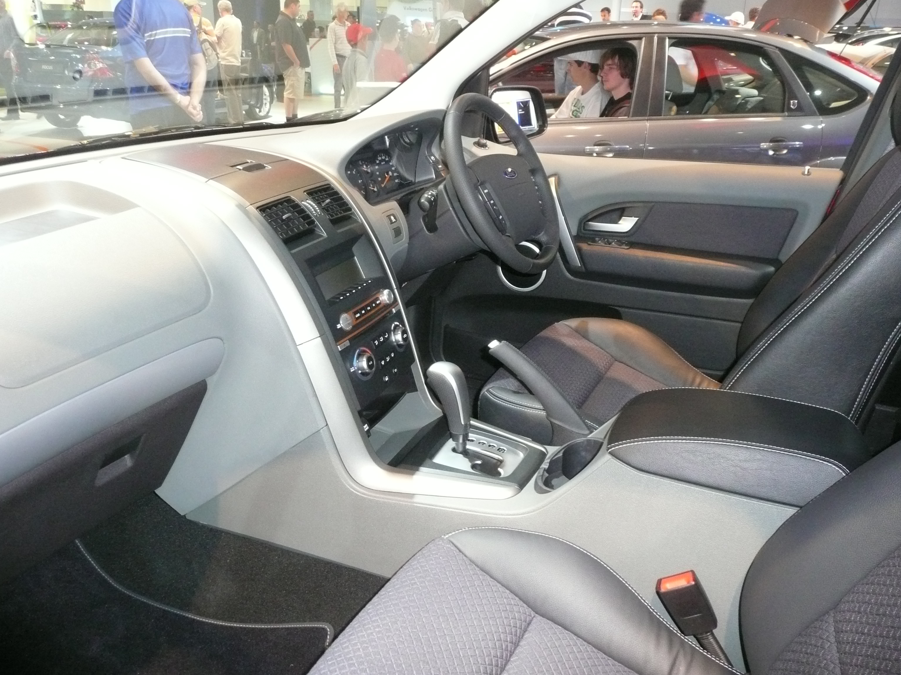 2008 Ford Territory (SY) SR2 RWD wagon. Photographed at the 2008 Australian International Motor Show, Sydney, New South Wales, Australia.